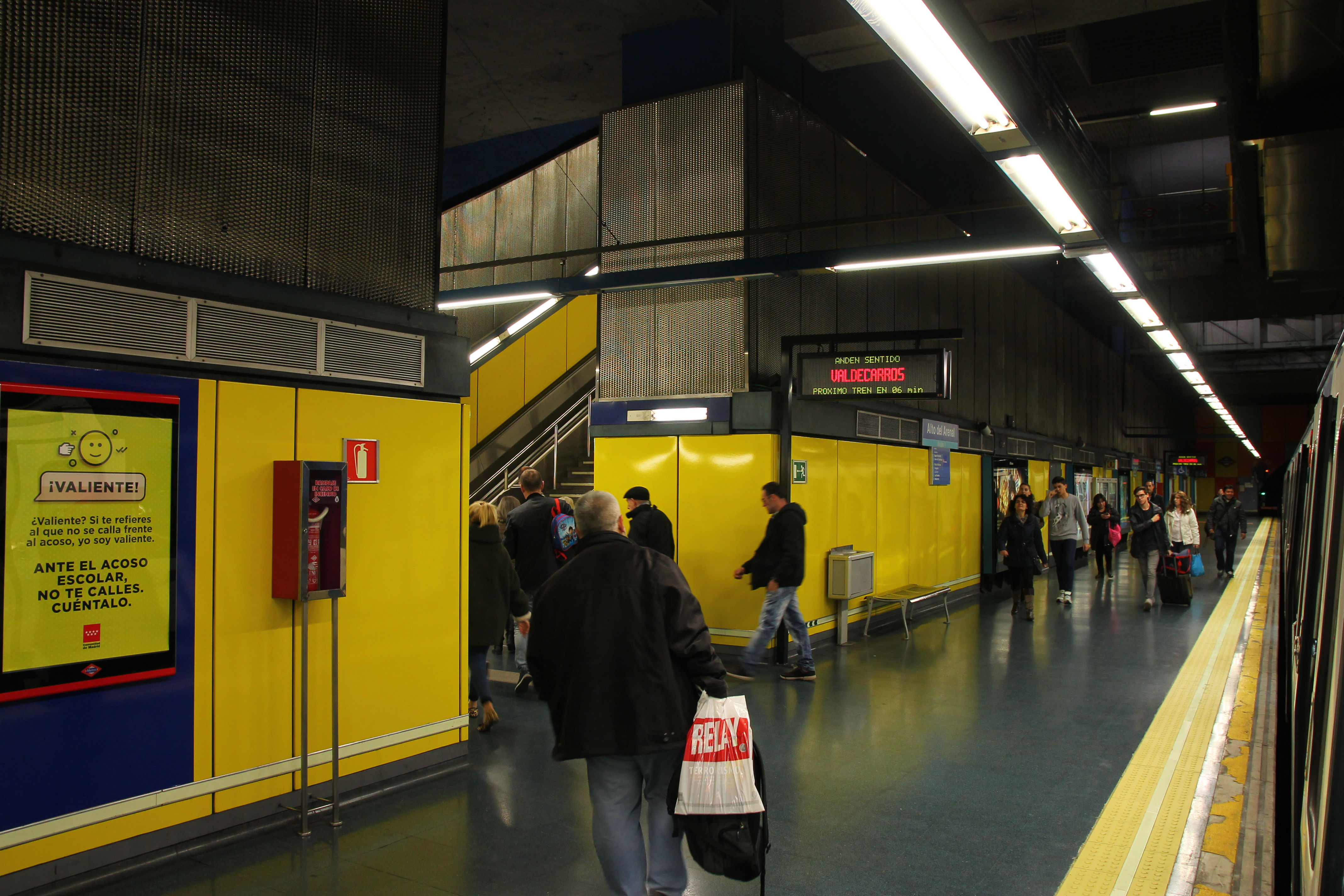 Alto del Arenal station. Madrid Metro.